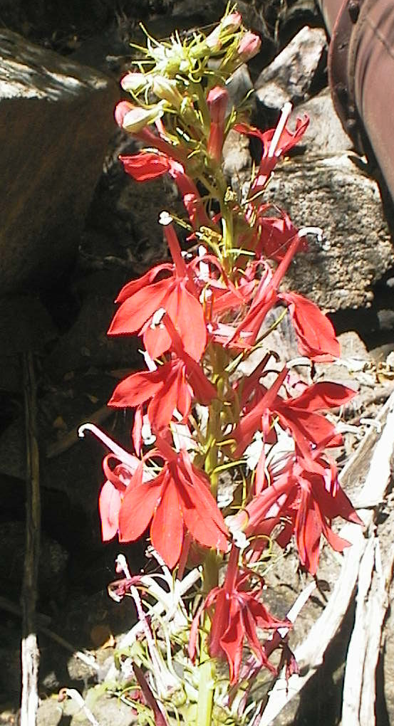 Cardinal Flower (lobelia cardinalis), Tichborne Ontario Canada